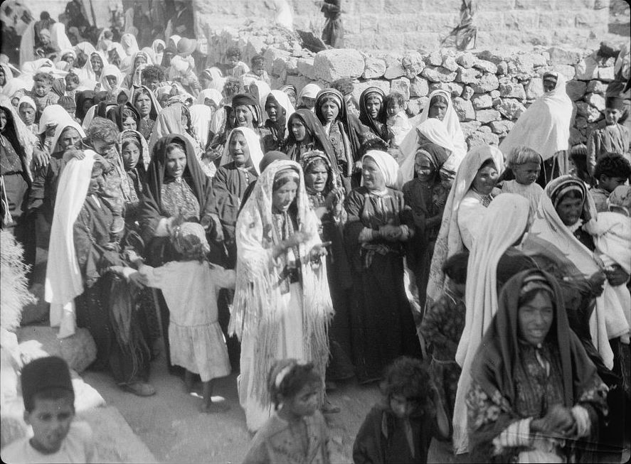 Wedding procession at Betunia, group of peasant women